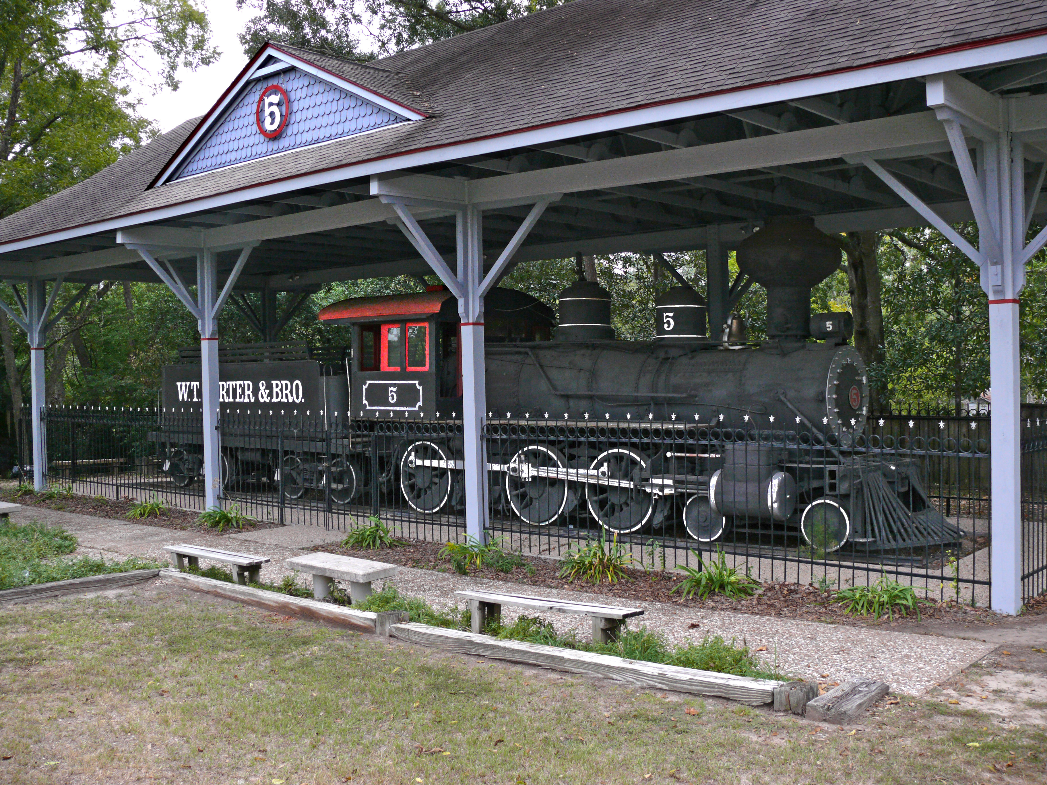 Built in 1911 by Philadelphia's Baldwin Locomotive Works, this locomotive was first used to transport timber in Florida. In the 1920's it was purchased for use in Texas' logging industry by the Angelina County-based Carter-Kelley Lumber Company. The locomotive traveled between Angelina and Polk County mill towns on Houston, East and West Texas railway tracks picking up logs and finished lumber that frequently had been hauled from local cutting areas by oxen. In use until 1952, the No.5 contributed to the area's timber industry.